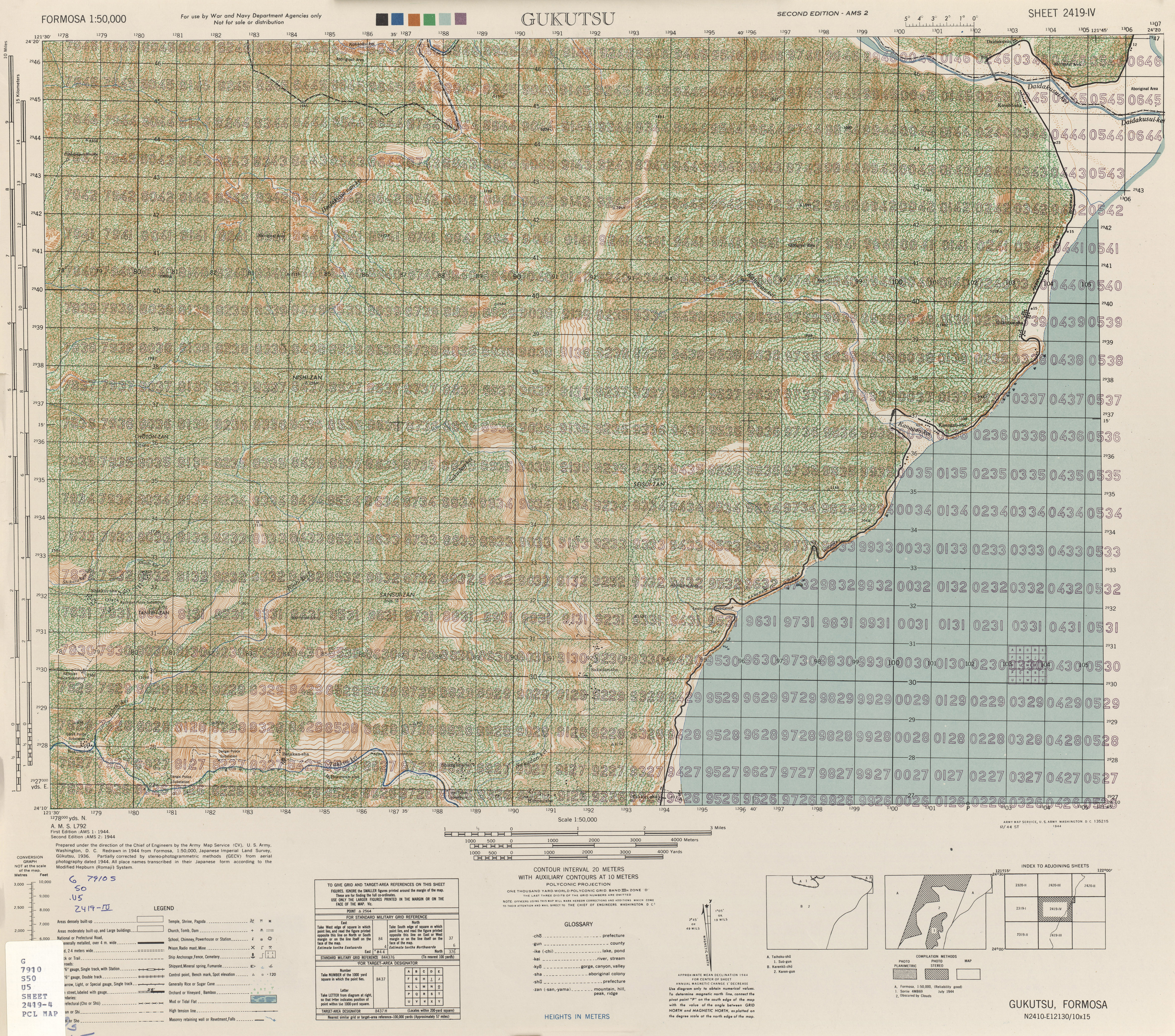 Map from Formosa (Taiwan) 1:50,000 AMS Series L792